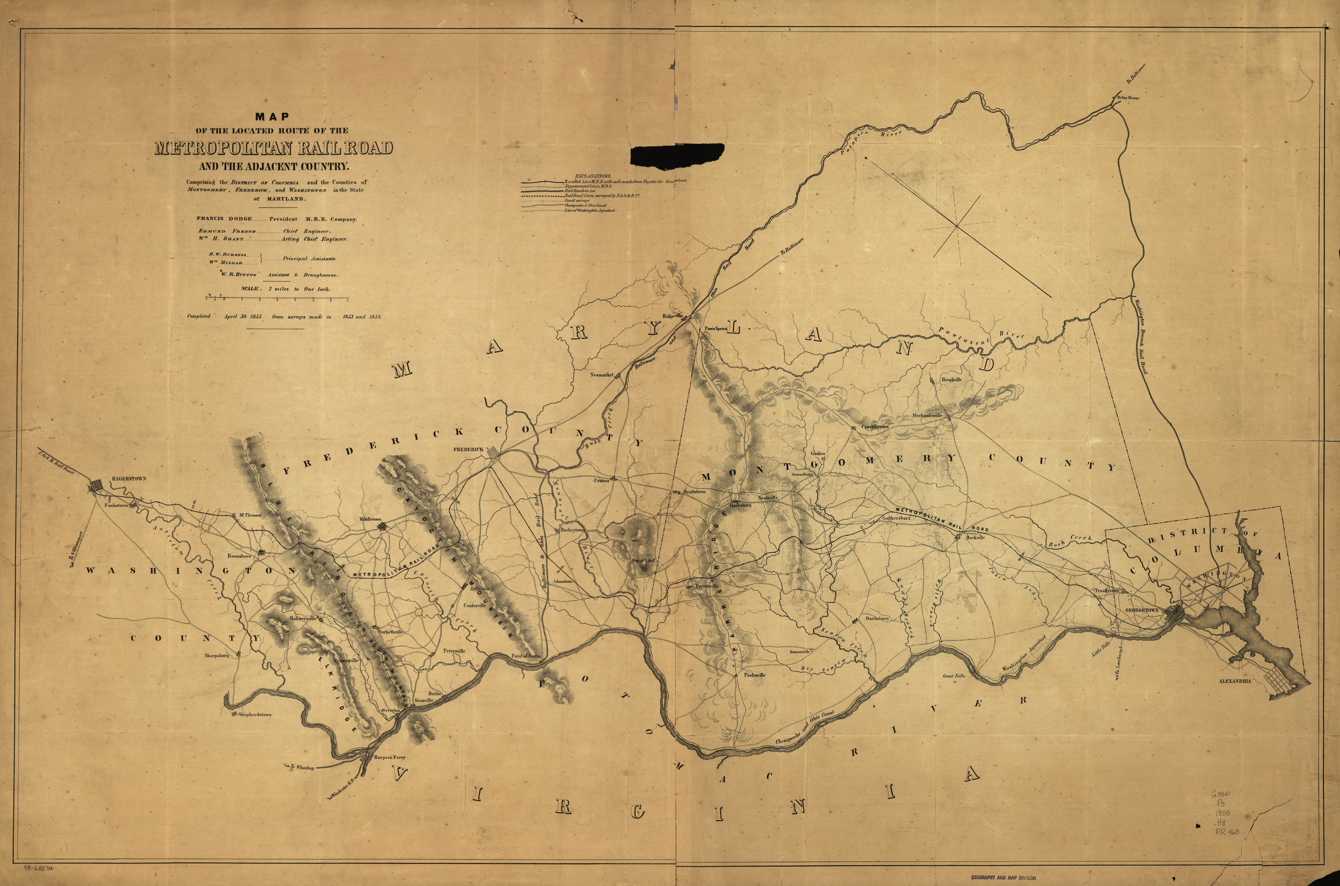 Map of the located route of the Metropolitan Rail Road and the adjacent country comprising the District of Columbia and the counties of Montgomery, Frederick, and Washington in the state of Maryland, Francis Dodge president M.R.R. Company, Edmund French, chief engineer, W. R. Hutton draughtsman, completed April 30, 1855 from surveys made in 1853 and 1854.